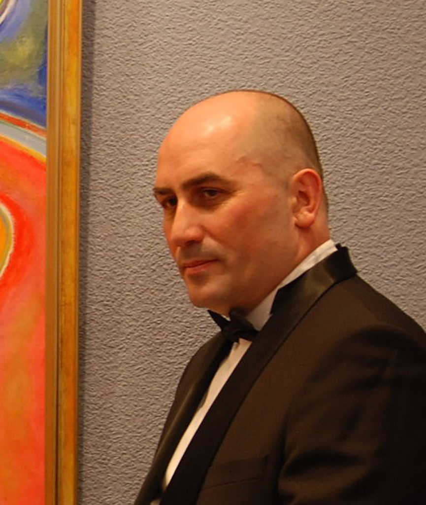 Date of birth June 12, 1965. July 26, 2014 to Present State Minister of Georgia for Diaspora Issues.